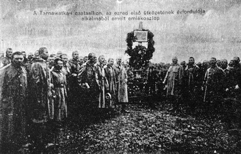 Memorial column, Tarnawatka, 1915